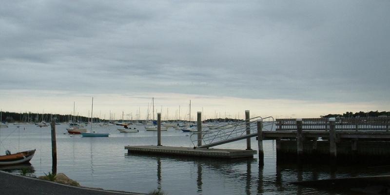 Marion Harbor, as seen from Island Wharf.